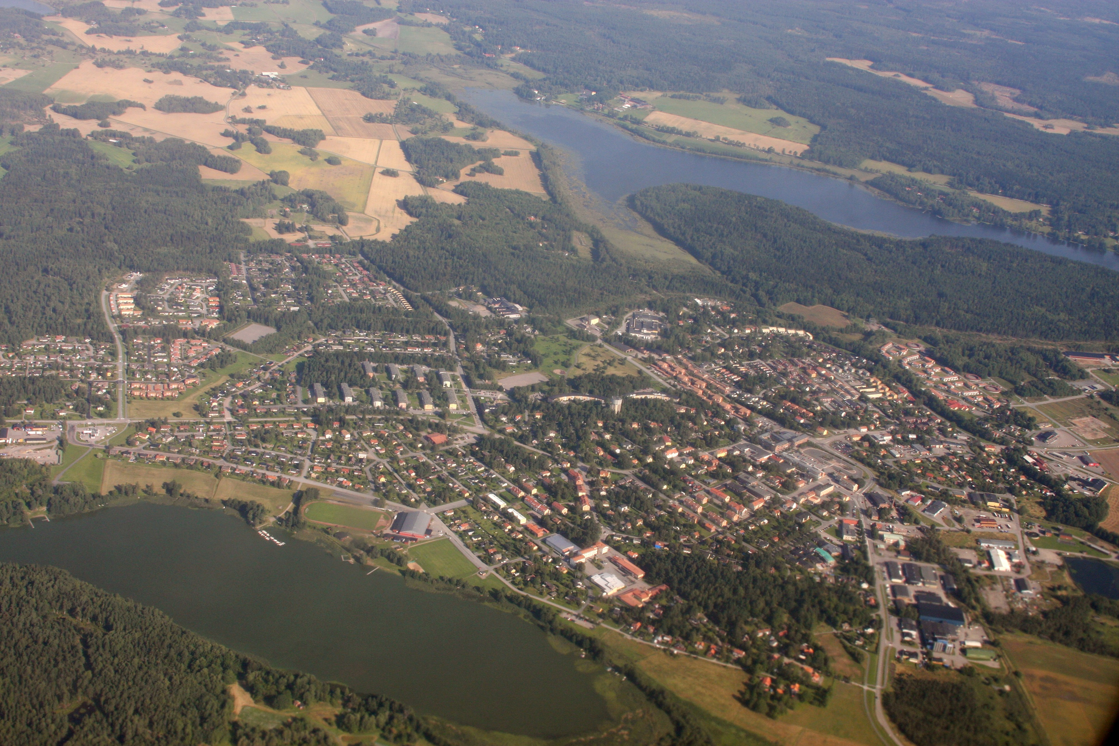 Rimbo town in Norrtälje kommun, eastern Sweden.